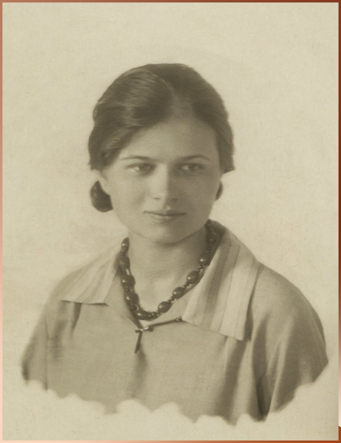 Izabella Zielinska, pianist